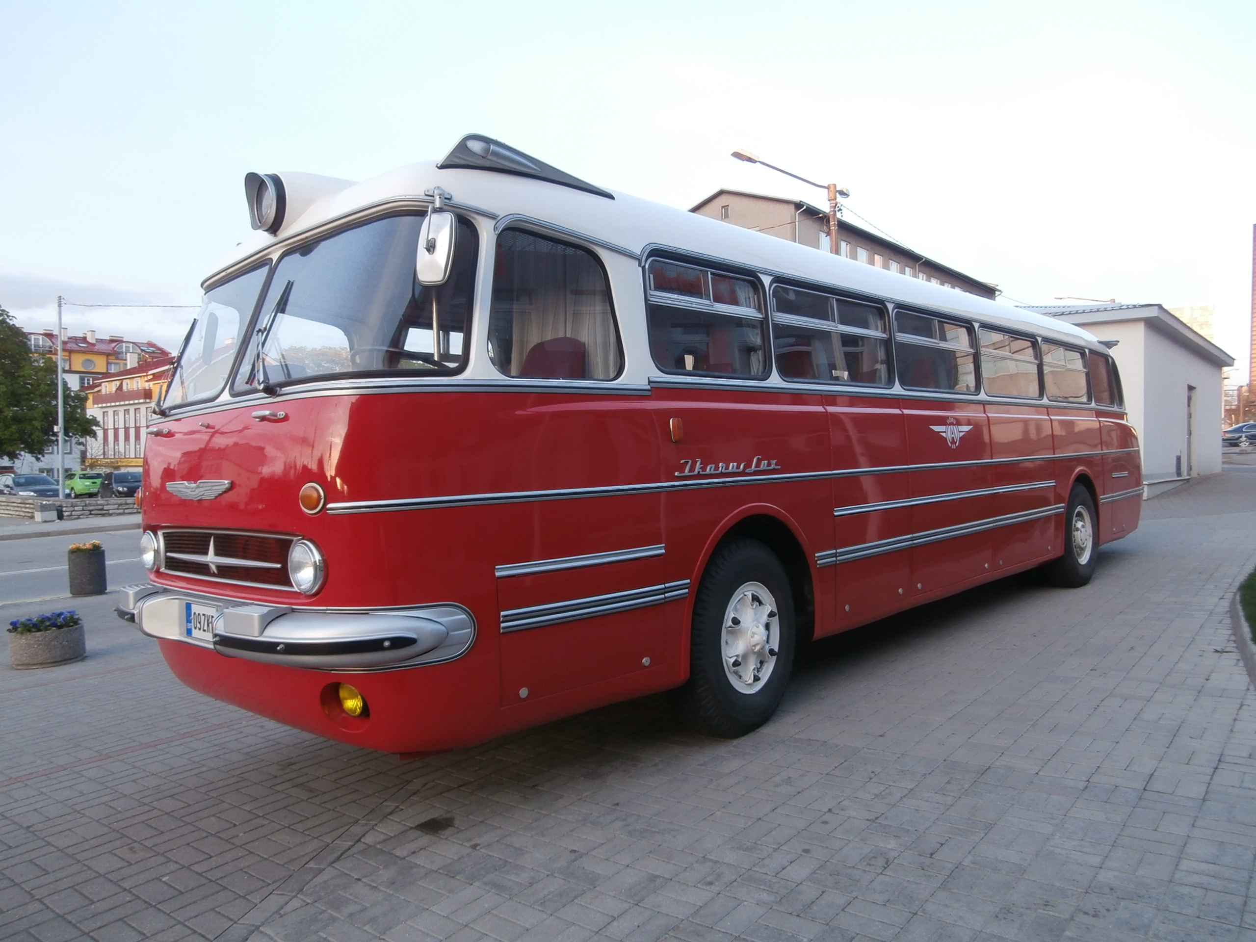 Ikarus Lux at Tallinn Bus Station - Tallinna Bussijaam - Tallinn 14 May 2014